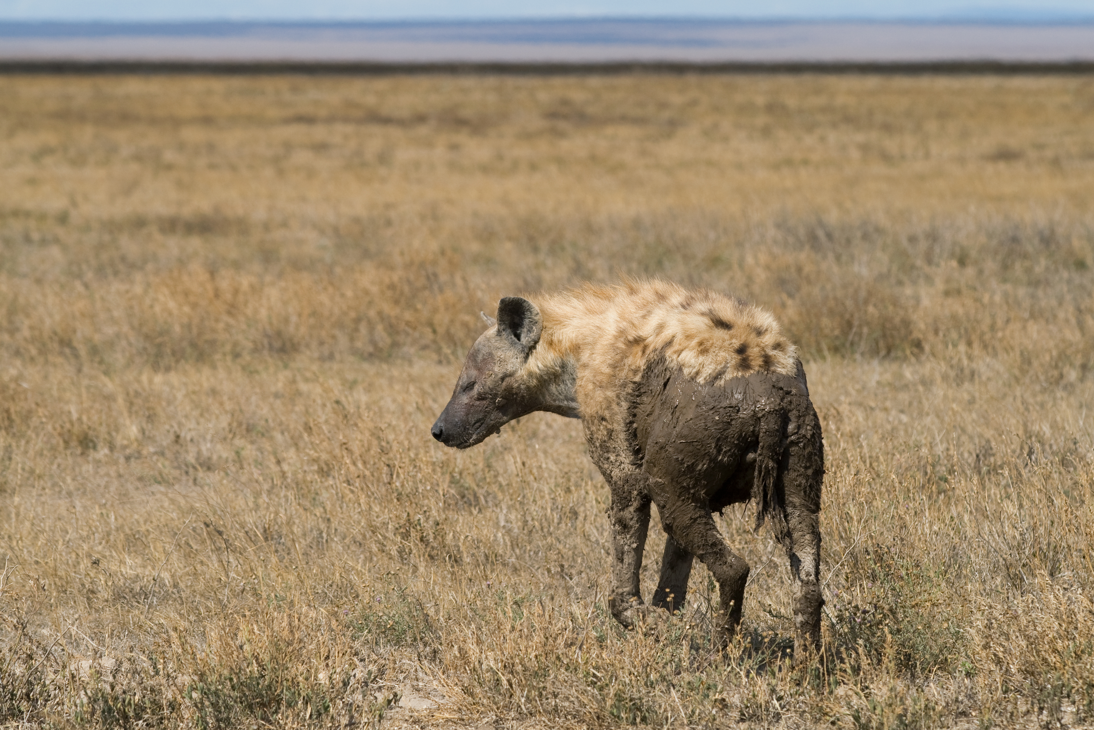 Spotted Hyena in Serengeti